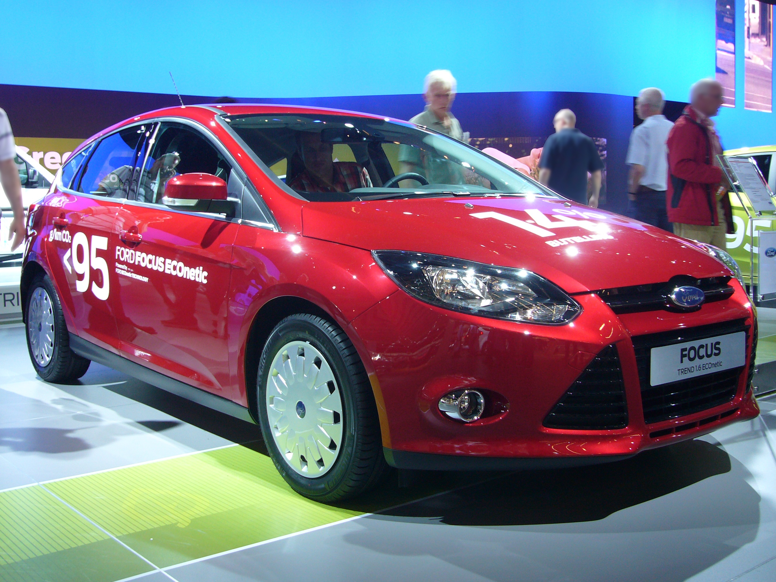 Ford Focus ECOnetic at AutoRAI Amsterdam 2011